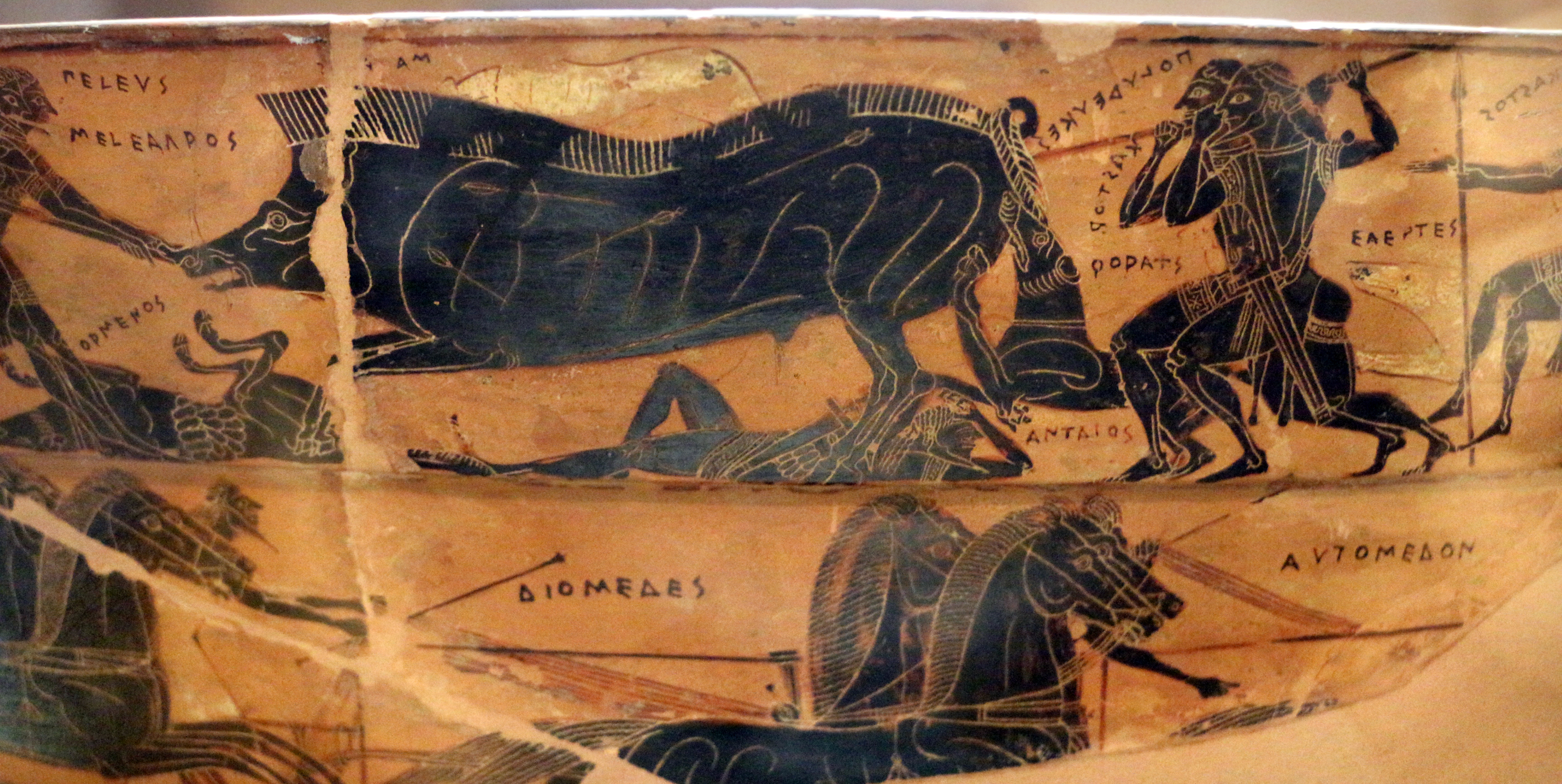 François vase